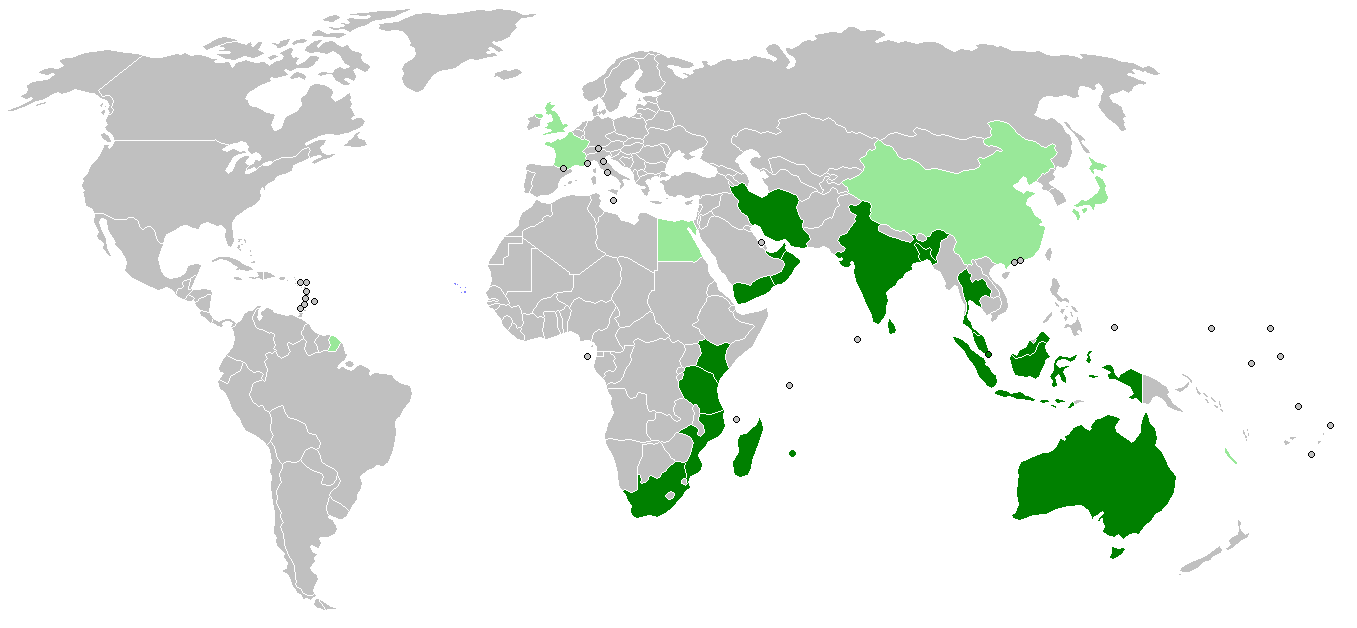 Map for the Indian Ocean Rim Association for Regional Cooperation. Self-made using the standard BlankMap-World-v2 image. Aris Katsaris 08:44, 11 March 2006 (UTC)